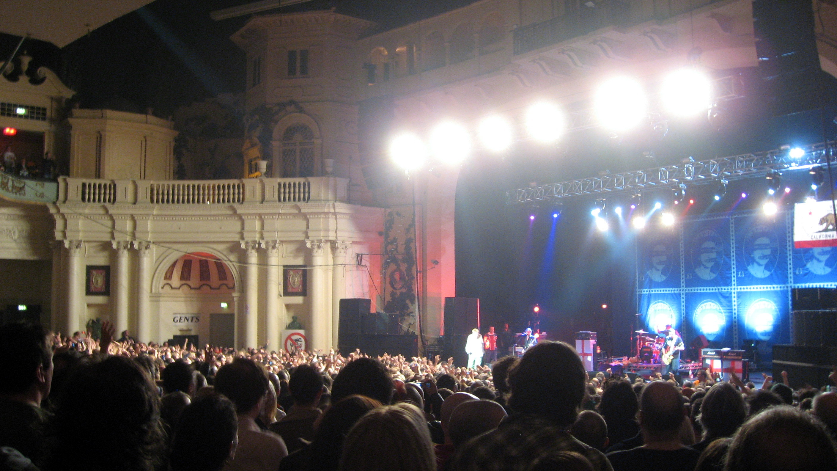 The Sex Pistols performing at Brixton Academy in Stockwell, London, on November 3, 2007.